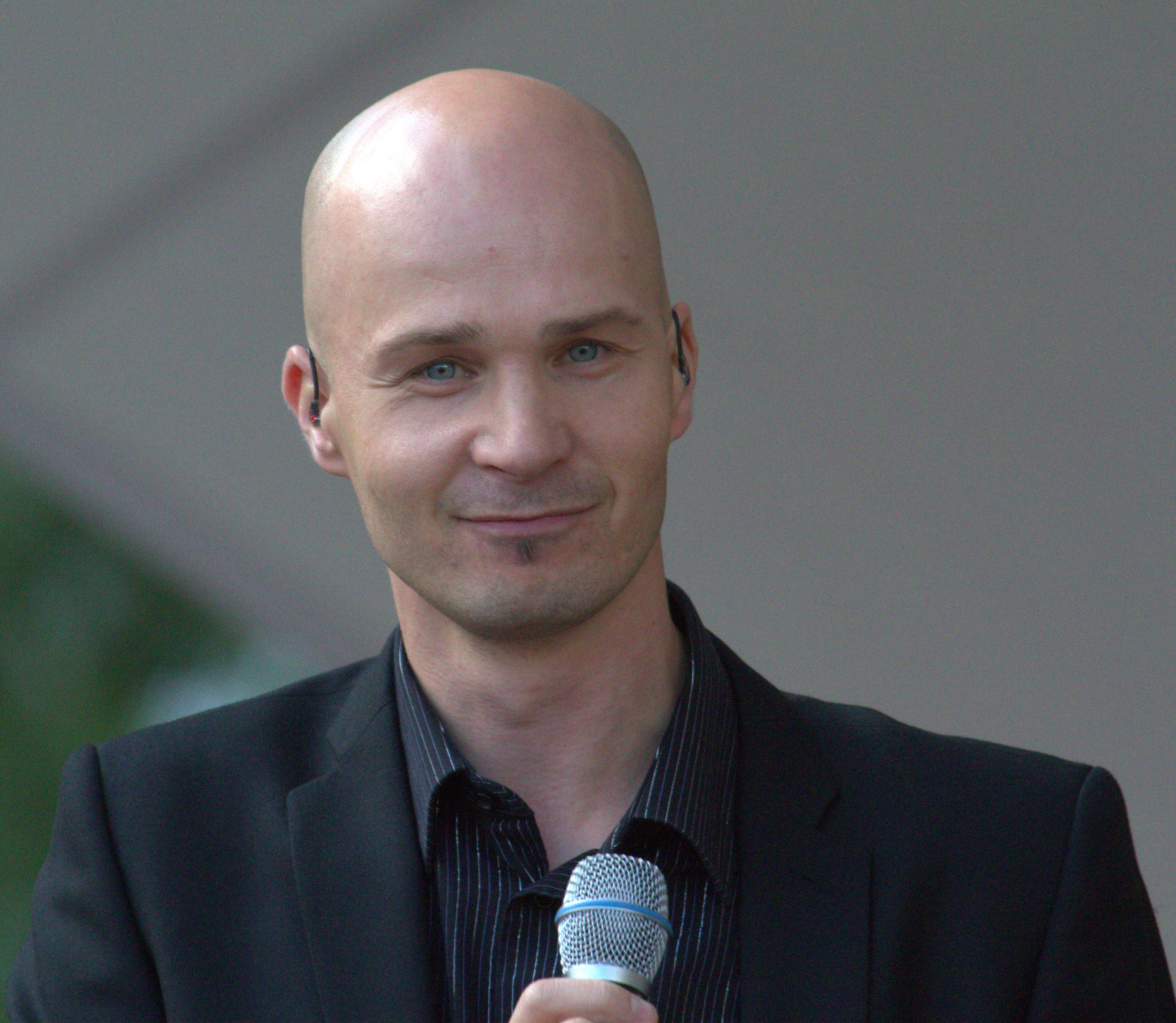 Marko Maunuksela, finnish singer